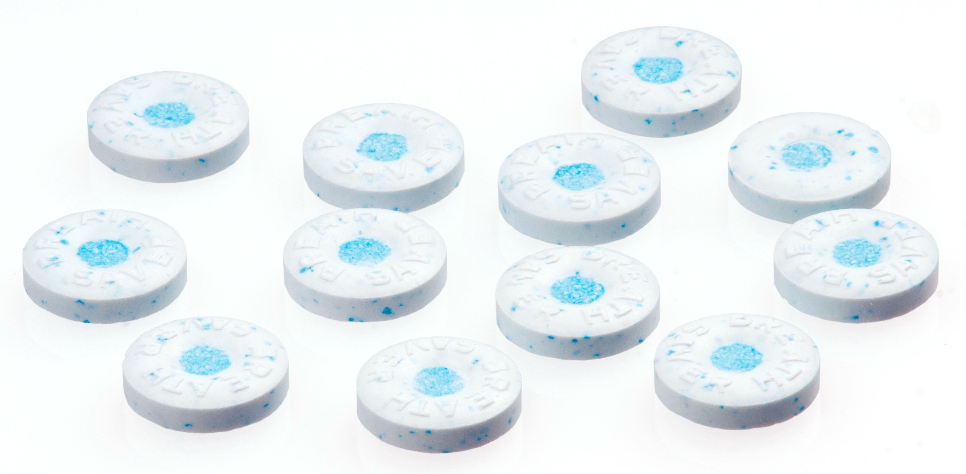 Peppermint Breathsavers mint candies, a tube's worth.